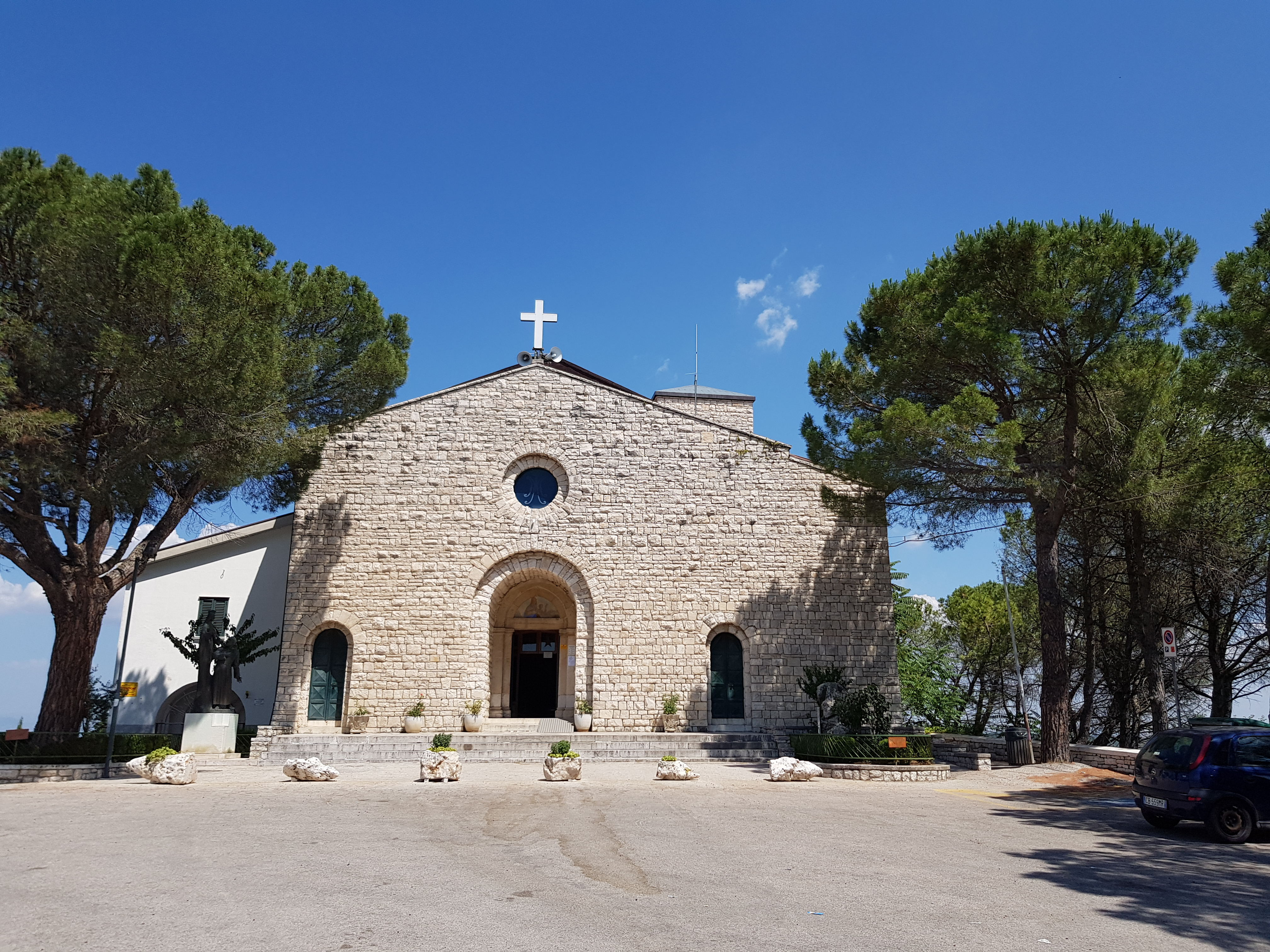 Church in campobasso